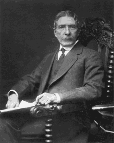 Edward Robert Tregear - Soldier, surveyor, linguist, Polynesian scholar, writer, public servant, political reformer from New Zealand